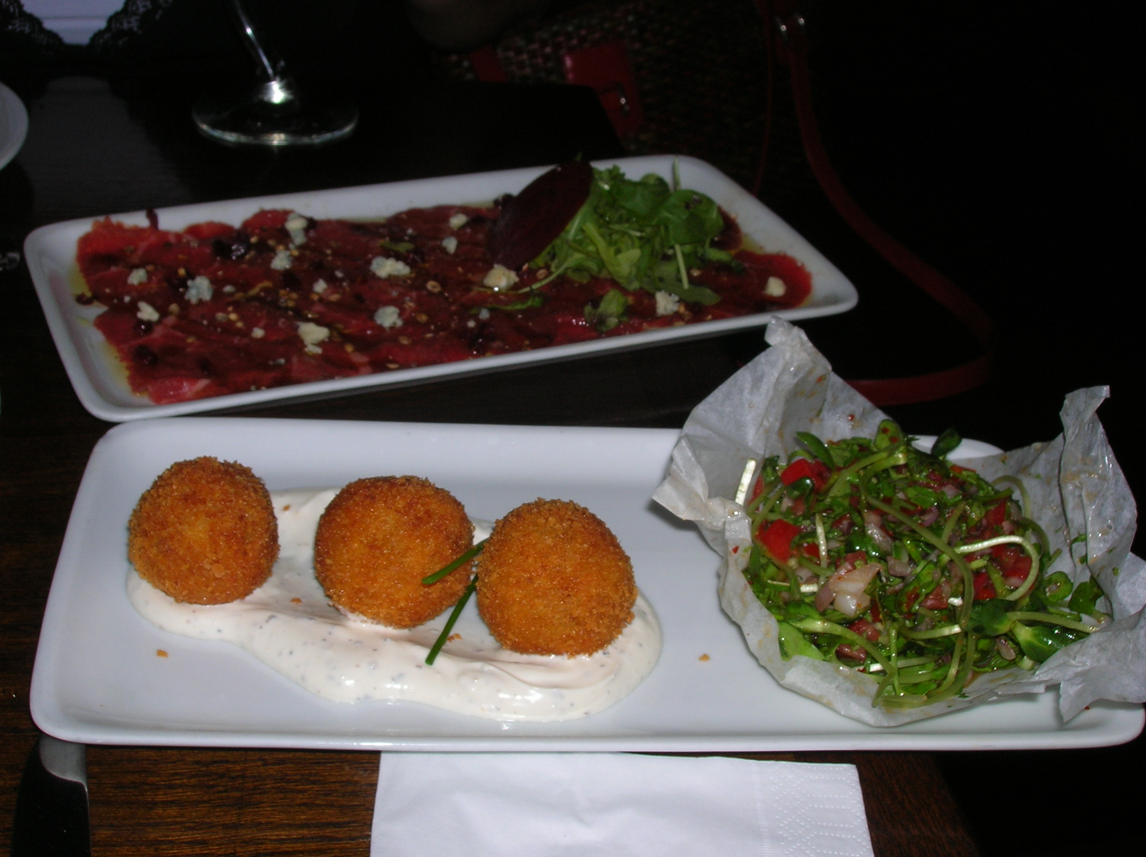 Avi biton 2011 1